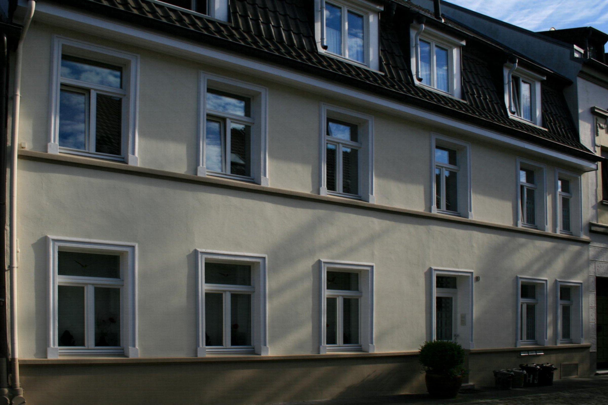 Cultural heritage monument No. St 014 in Mönchengladbach